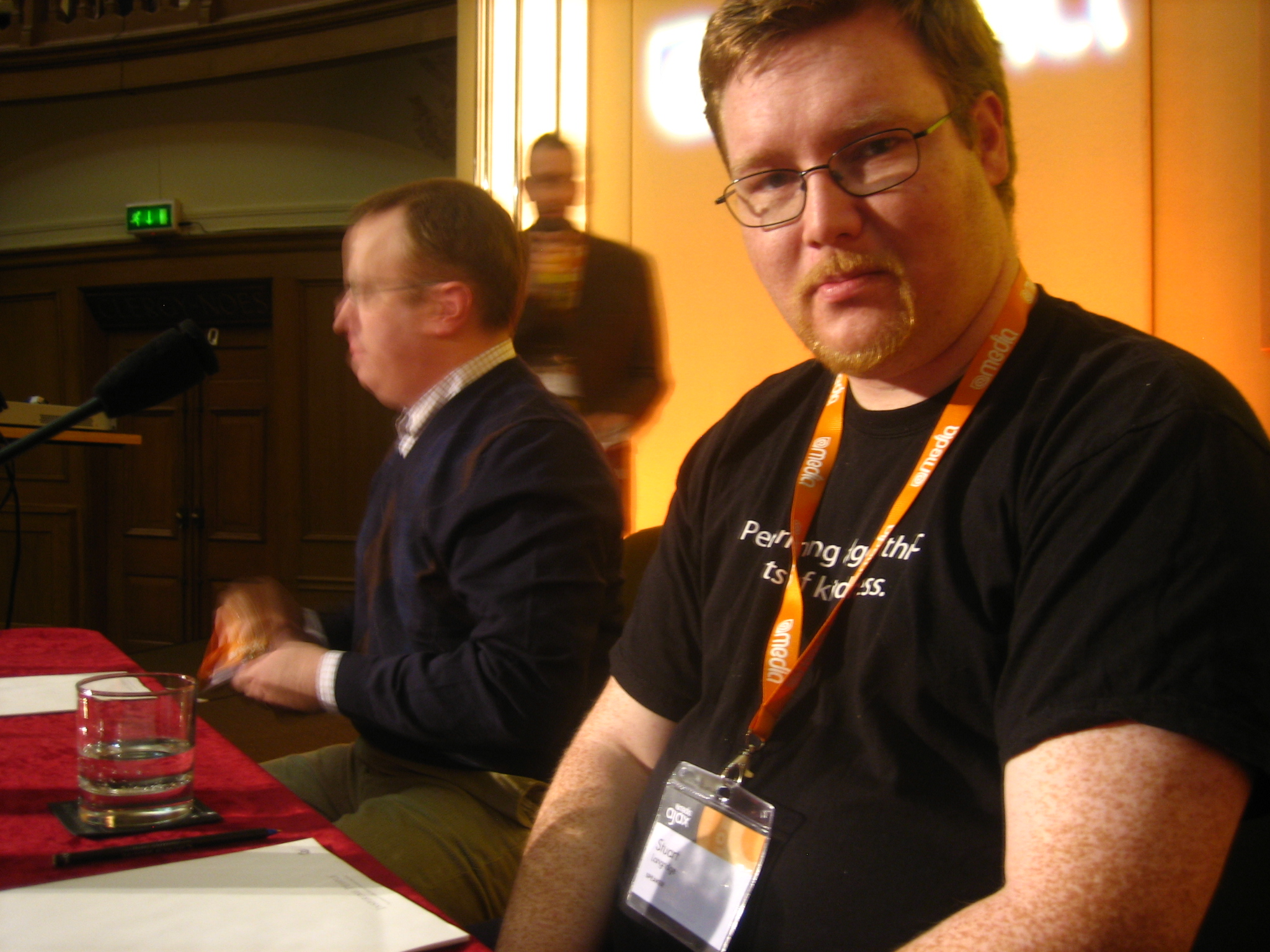 Panelists Stuart Langridge and Brendan Eich at Web Directions @media ajax 2007 conference